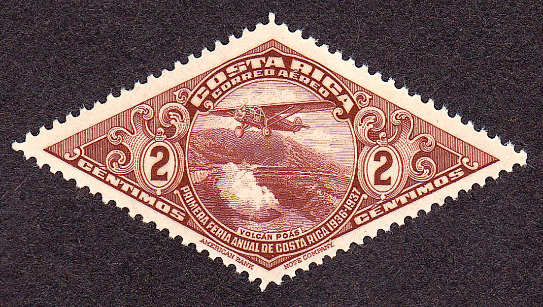 Postage stamp, Coasta Rica, 1937, 2c, brown, diamond shape stamp